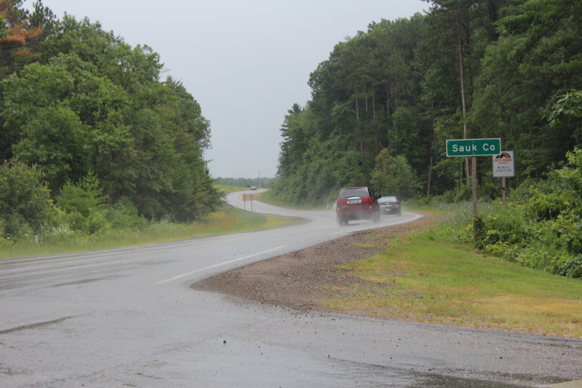 The sign for Sauk County in the rain on U.S. Route 12 / Wisconsin Highway 16.